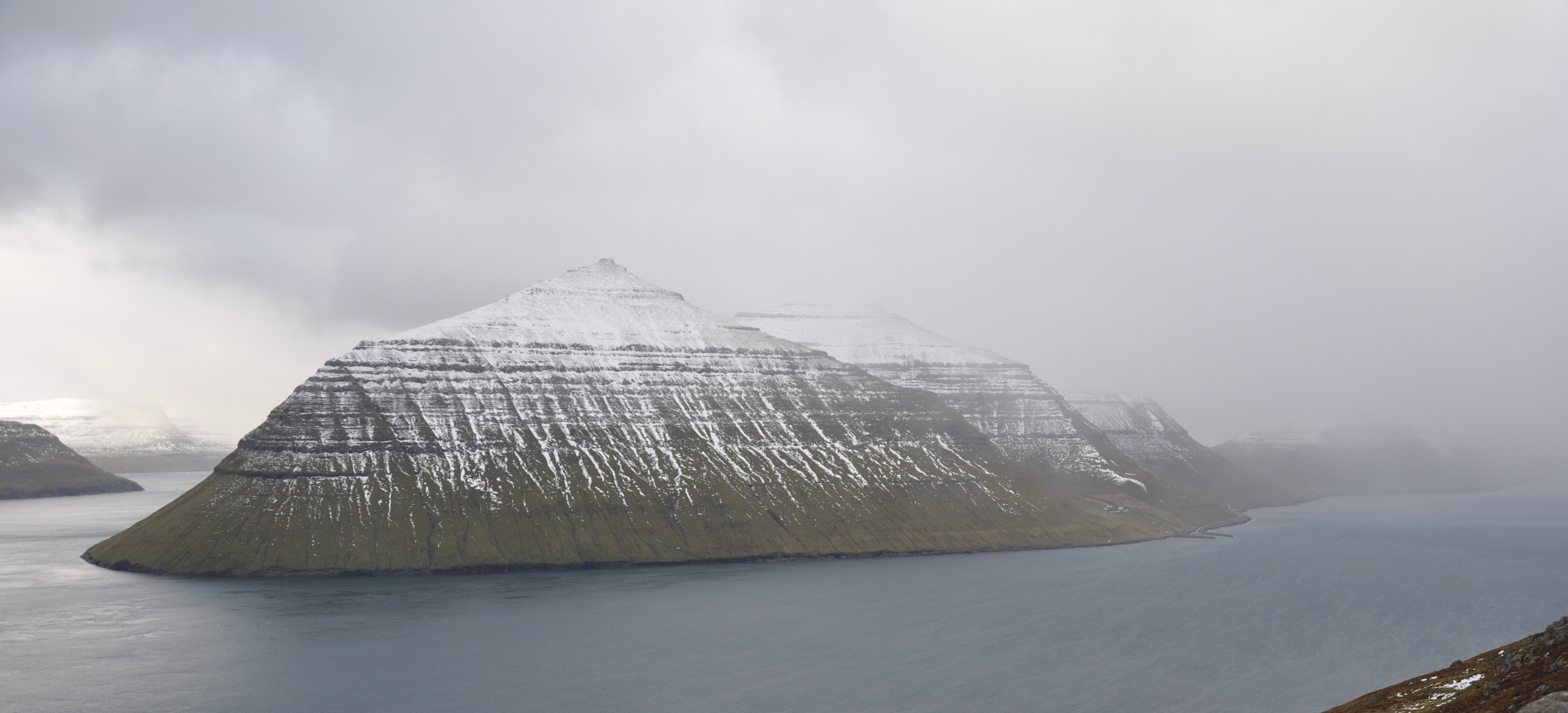 The island Kalsoy (Faroe Islands, North Atlantic Ocean). Its main village Syðradalur and harbour are visible on the right. Picture taken from Hálsur pass on Borðoy, looking WNW.